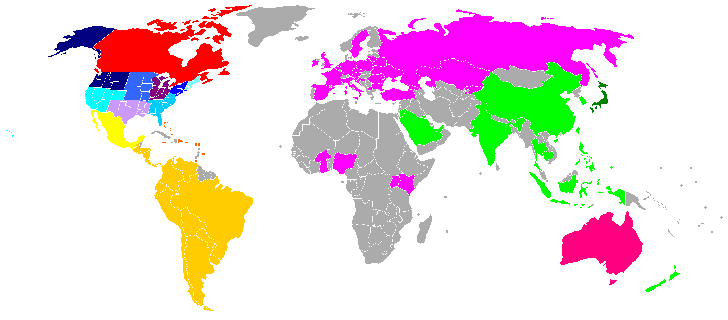 Based on Little League Baseball Map.png by Howard the Duck, a file originally published under standard CC-BY-SA-3.0 and GFDL license. Modified to reflect changes for 2013 Little League World Series.